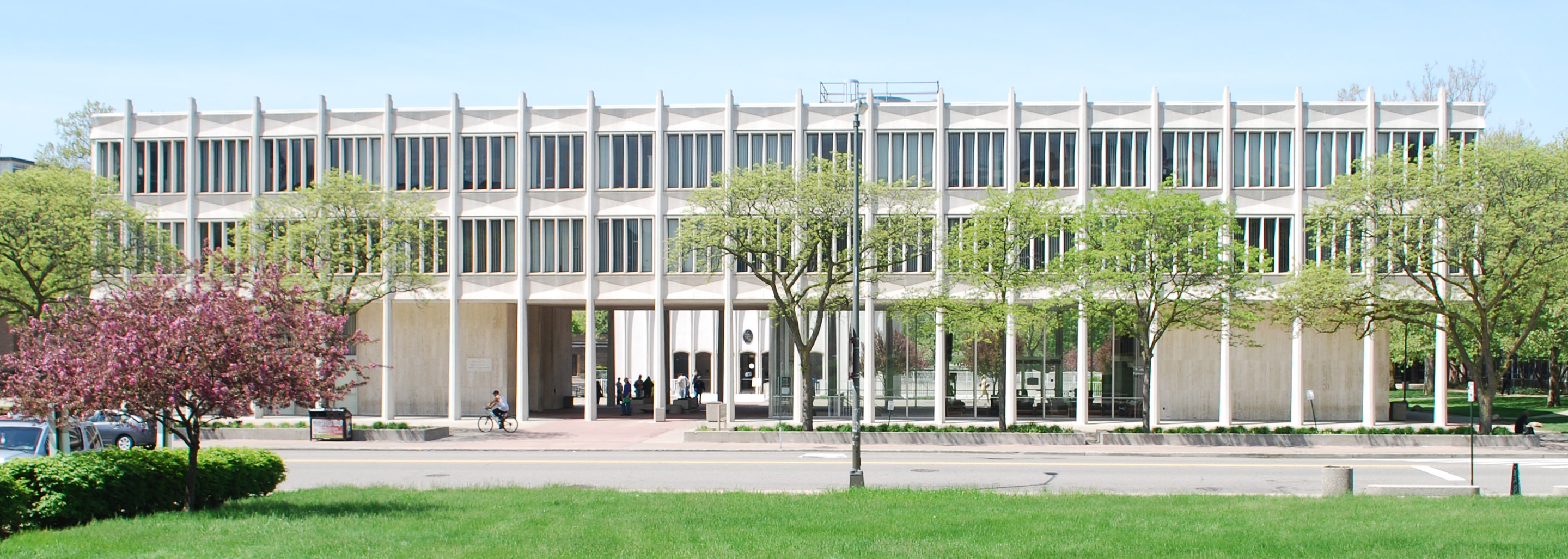 Prentis Building and garden plaza — on the Wayne State University campus, Midtown Detroit, Michigan. 1964 Modernist architecture by Minoru Yamasaki. On the National Register of Historic Places.